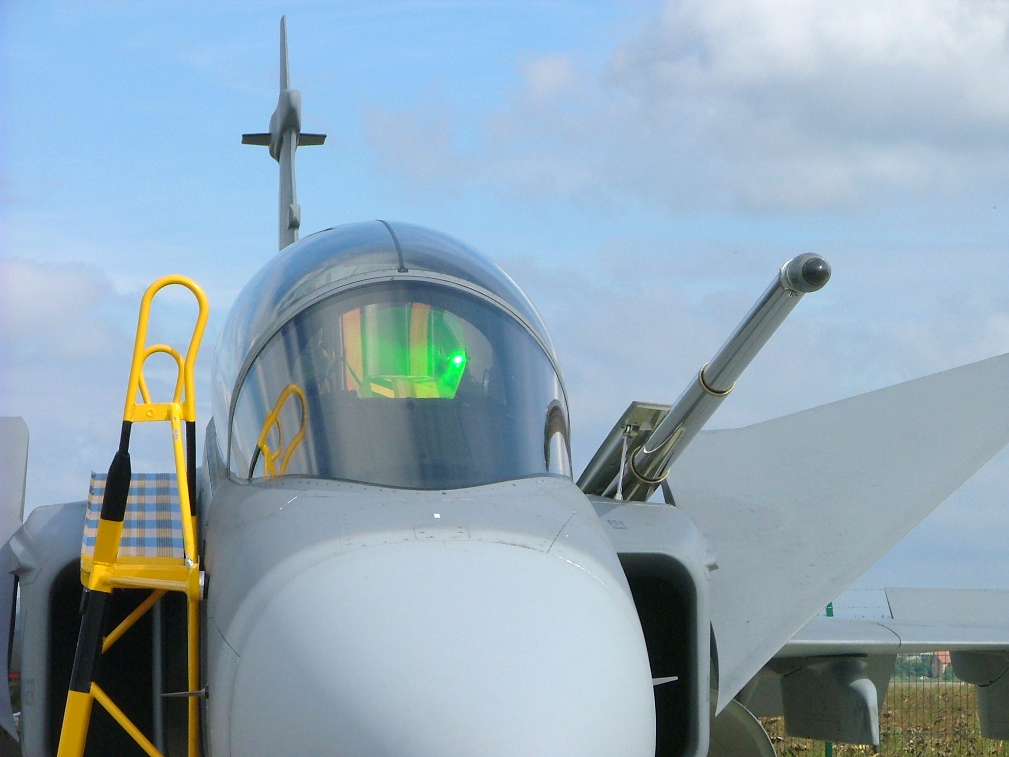 JAS 39D Gripen of the Czeh Air Force, Brno, CIAF 2007